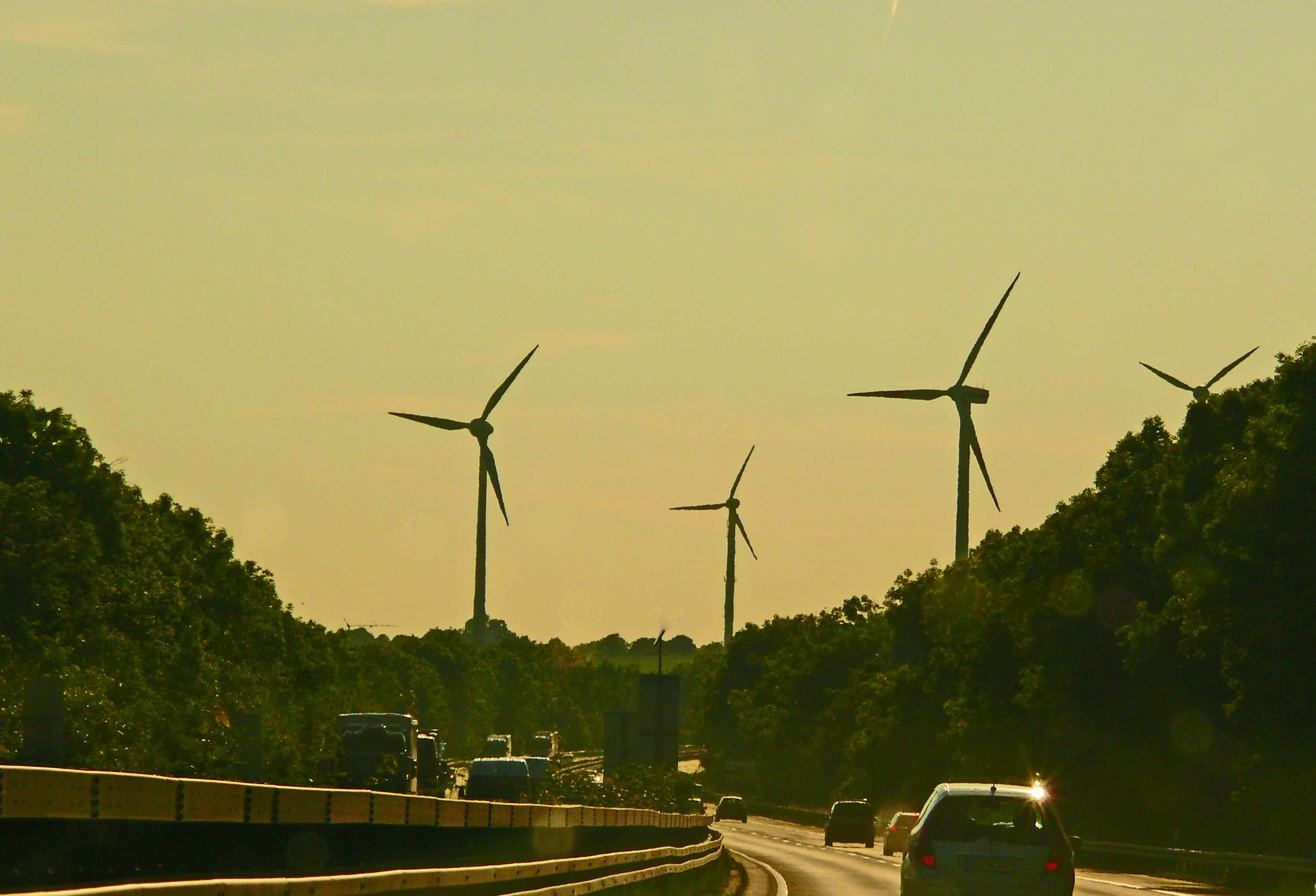 The German Autobahn44 in direction of Dortmund behind Diemelstadt